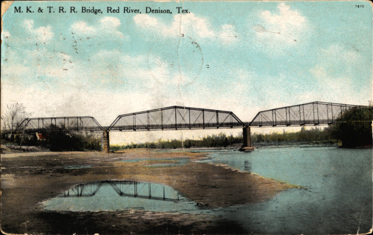 Postcard of a Missouri-Kansas-Texas Railroad line railroad bridge across the Red River near Denison, Texas.